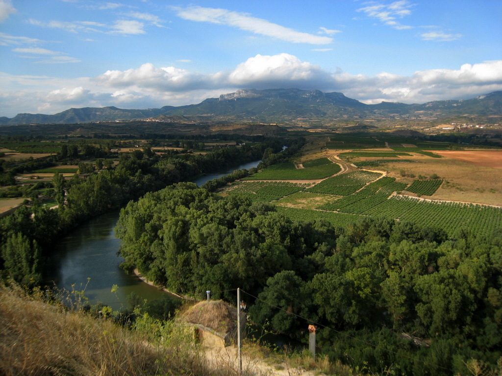 Rio Ebro, heart of La Rioja See where this picture was taken. [?]